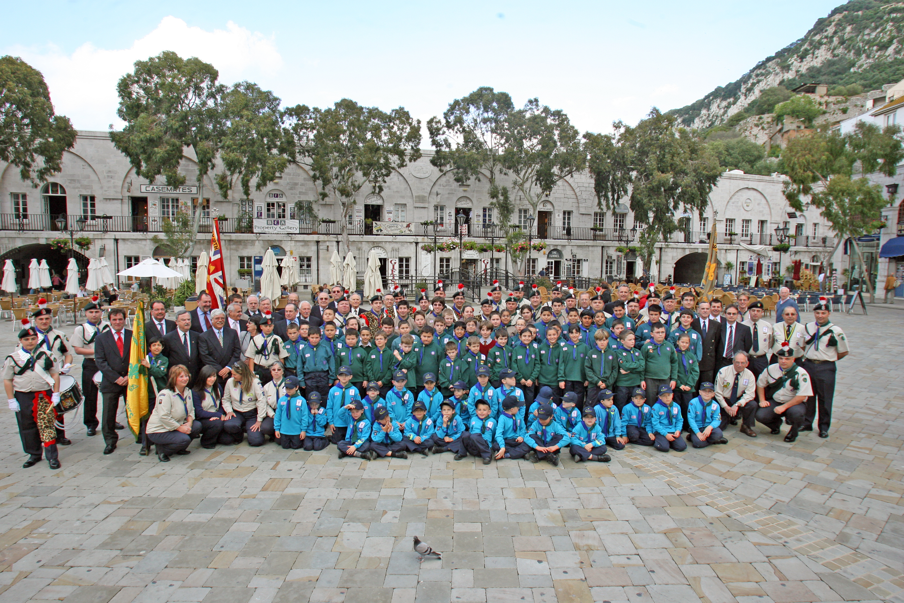 1st/4th Gibraltar Scout Group Photo